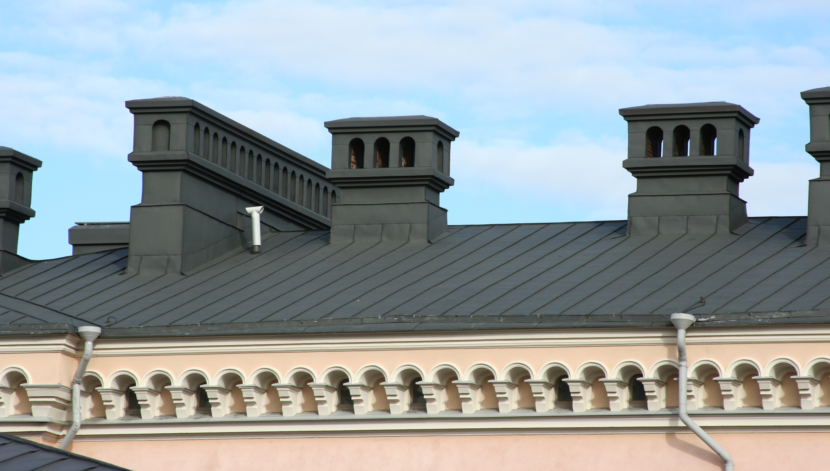 Sheet metal roof, Helsinki University Museum Arppeanum, Helsinki, Finland. Architect Carl Albert Edelfelt. Completed 1869.